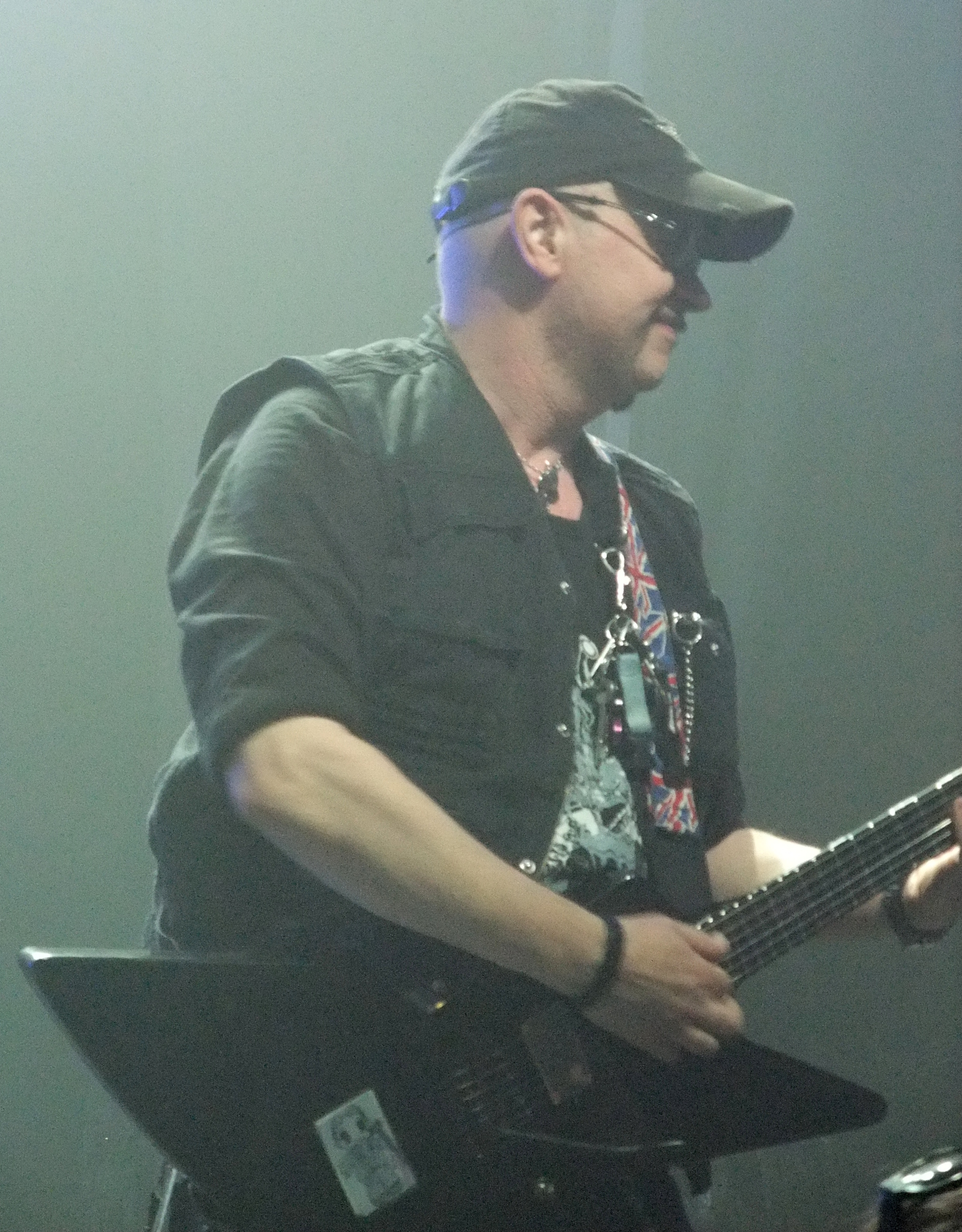 Paul Quinn performing with Saxon at their tradition St George's Day show in London, 23rd April 2009